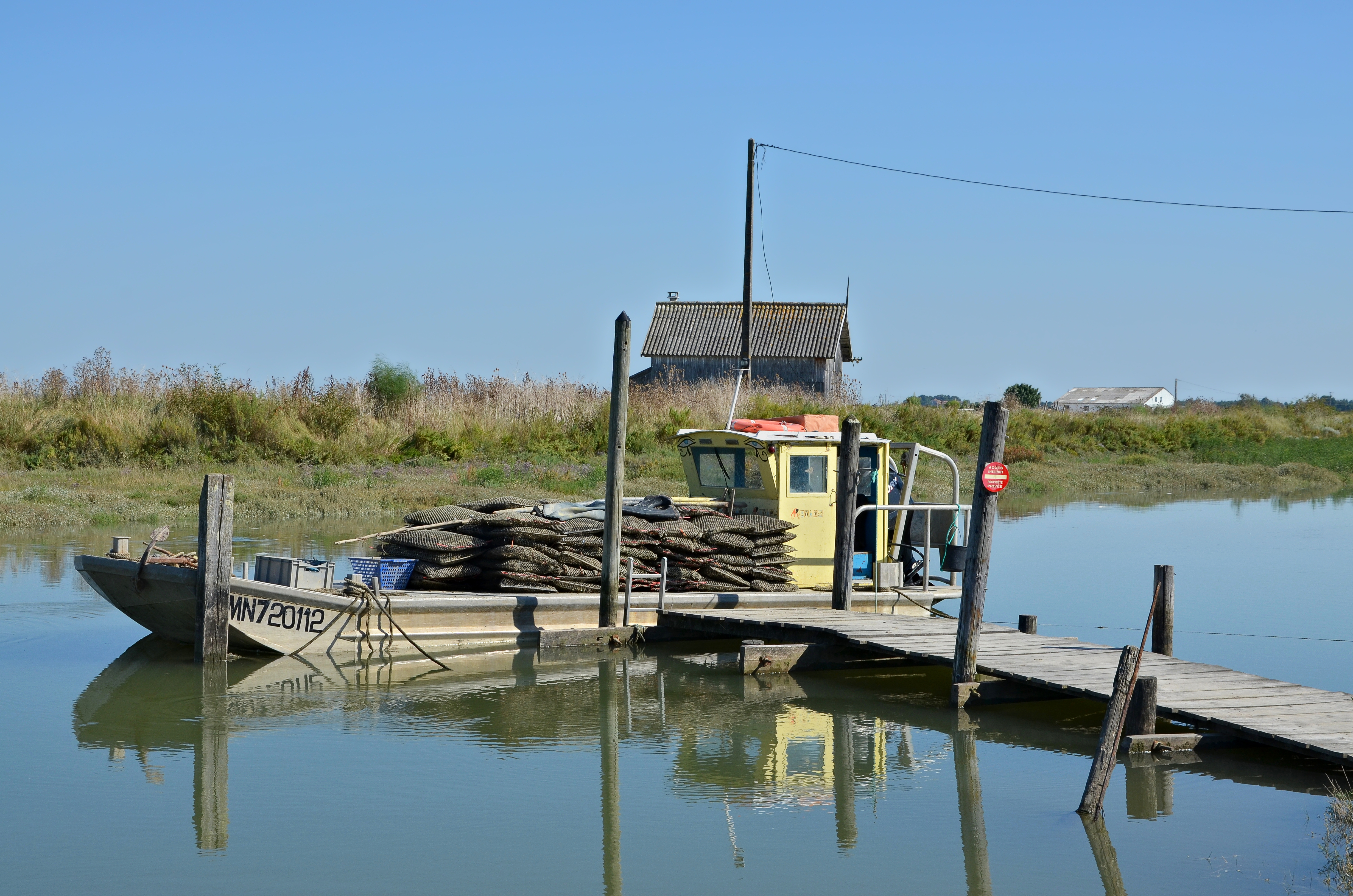 Moored flat-bottomed oyster-boat, with oyster-bags in Chatressac , Charente-Maritime, France